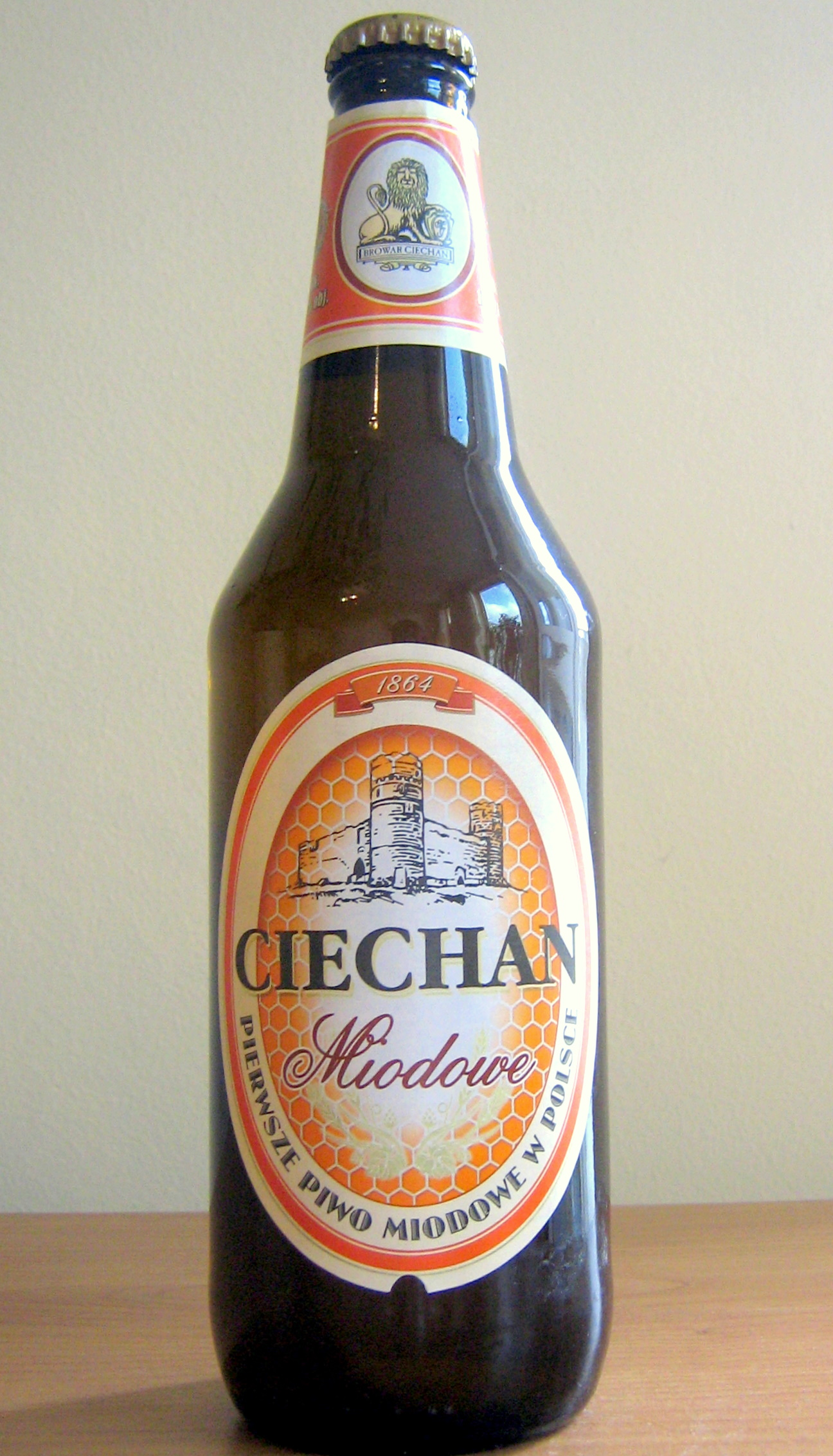 Ciechan Honey Beer